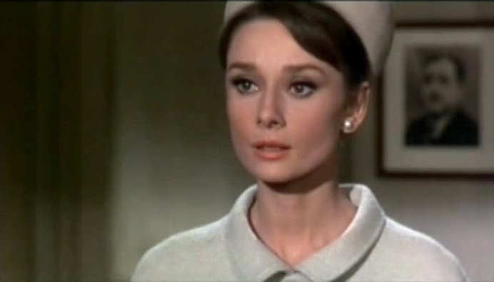 Screenshot of Audrey Hepburn from the film Charade